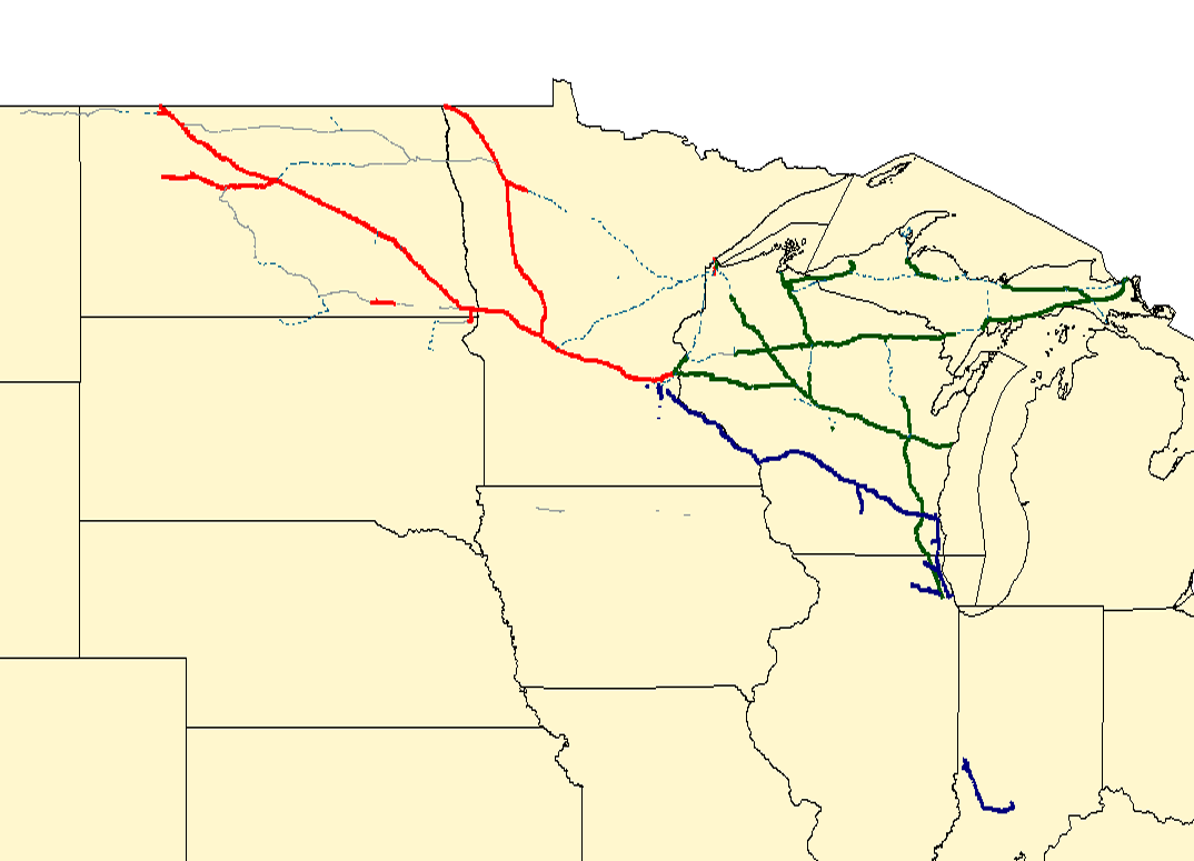 Map of the Soo Line Railroad. Red lines are former SOO trackage operated by CP Rail; dark blue lines are former Milwaukee Road trackage now operated by CP Rail; green lines are former SOO trackage spun off to the Wisconsin Central Railway and now part of Canadian National. Grey lines in North Dakota are operated by Short Lines (Dakota Missouri Valley & Western or Northern Plains Railroads). Dotted light blue lines are abandoned. Created with Quantum GIS using data from the National Transportation Atlas.